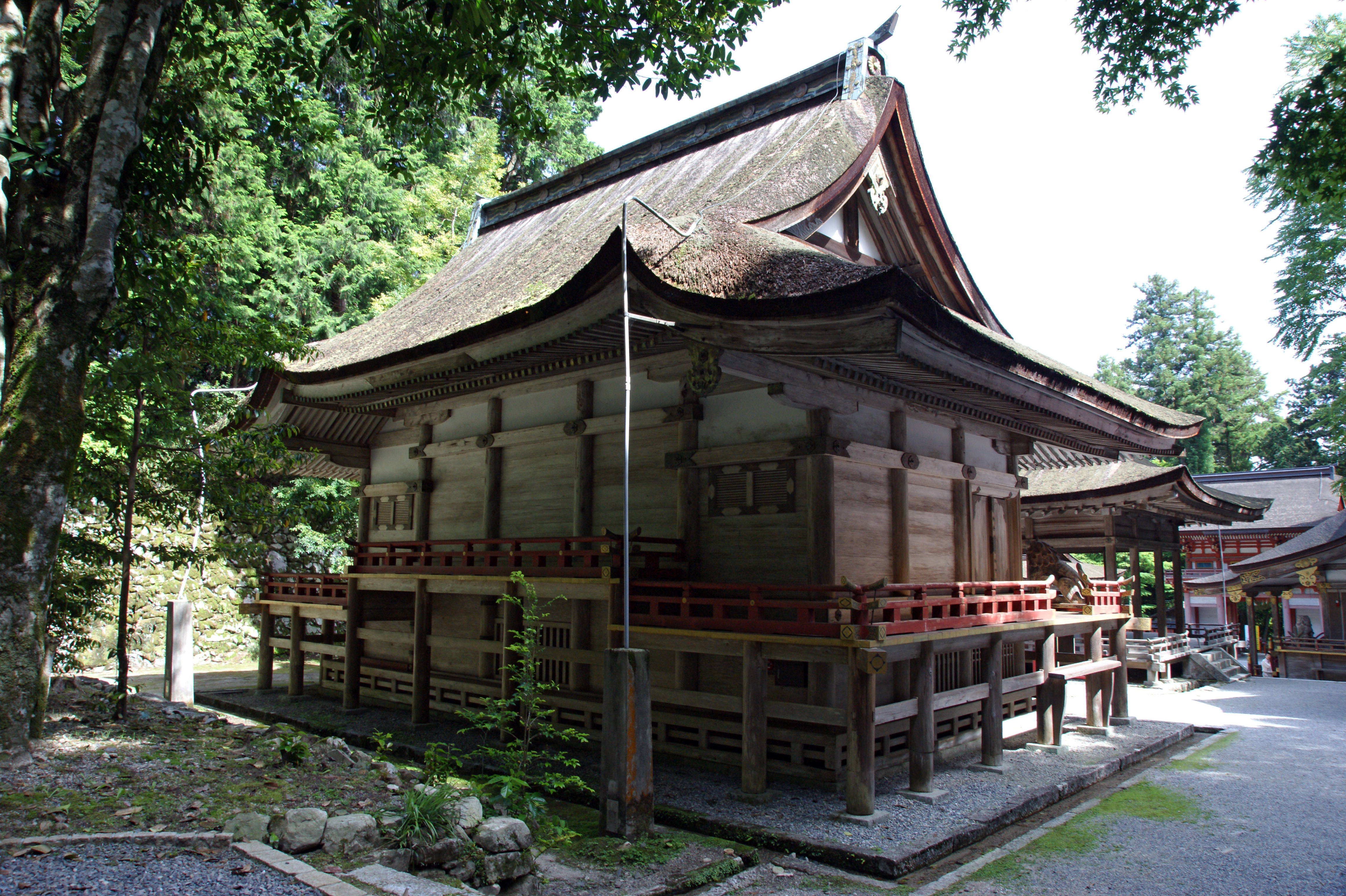 Hiyoshi Taisha in Otsu, Shiga prefecture, Japan